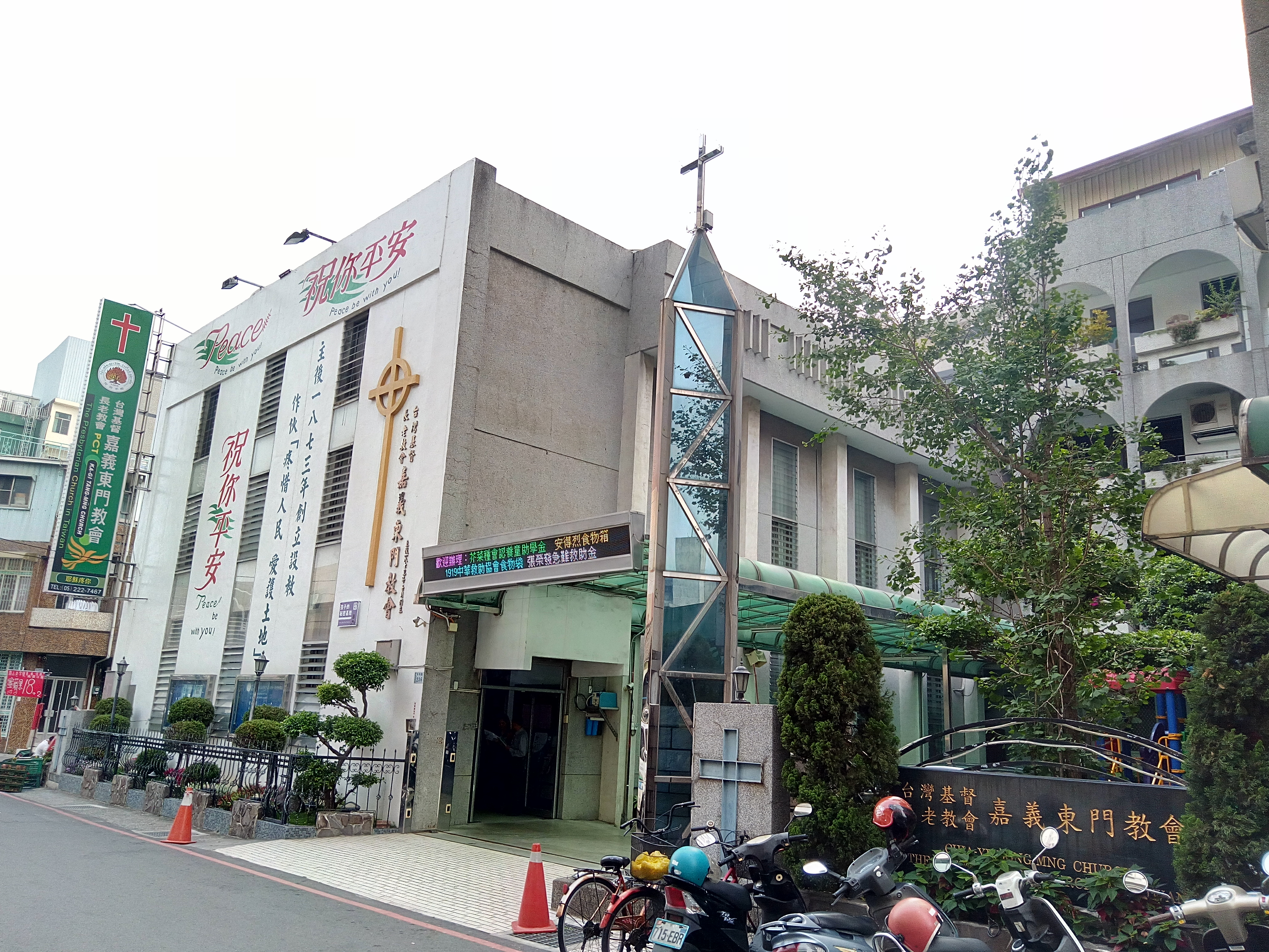 The Presbyterian Church in Taiwan Ka-gī Tang-mn̂g Church